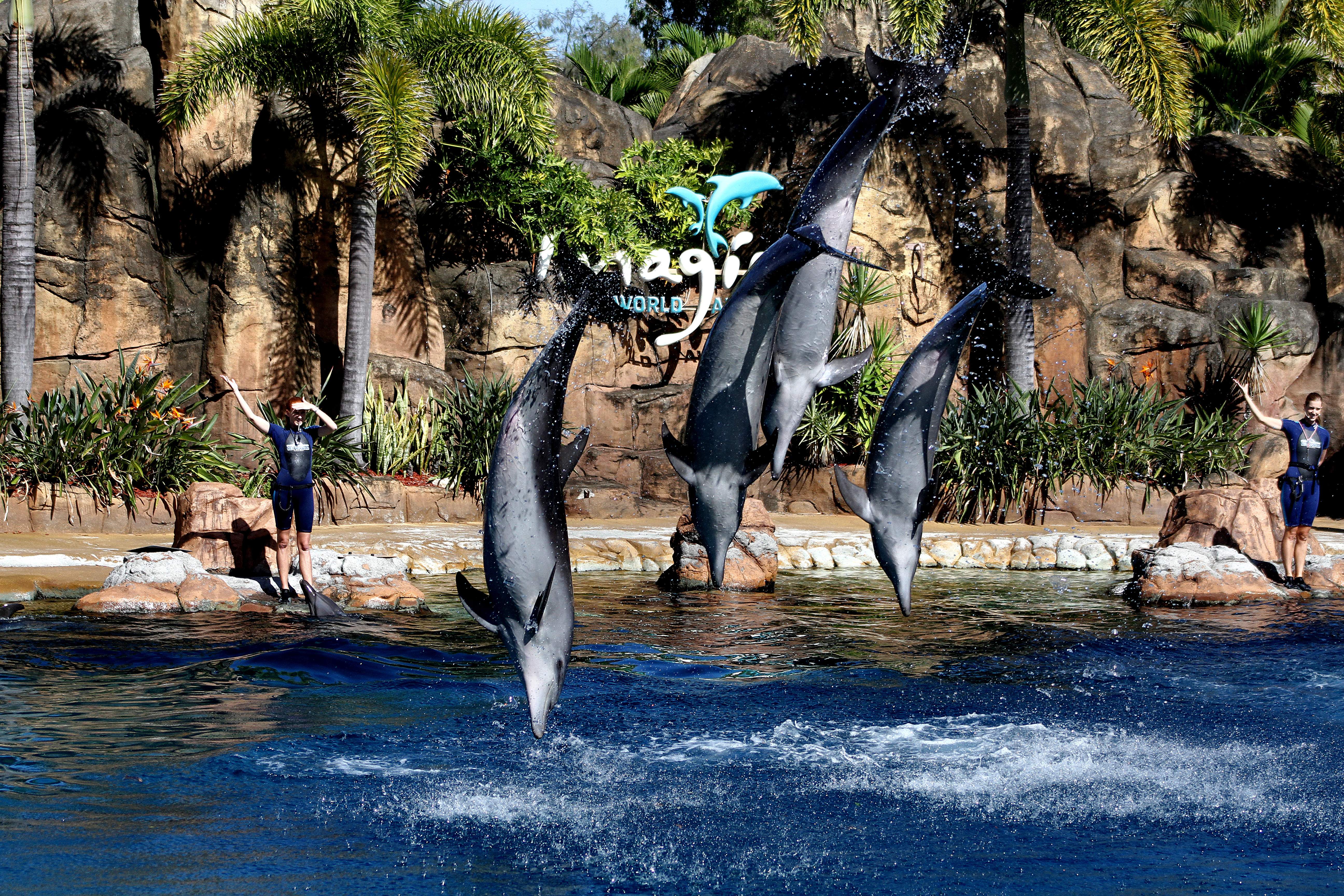 Gold Coast Australia